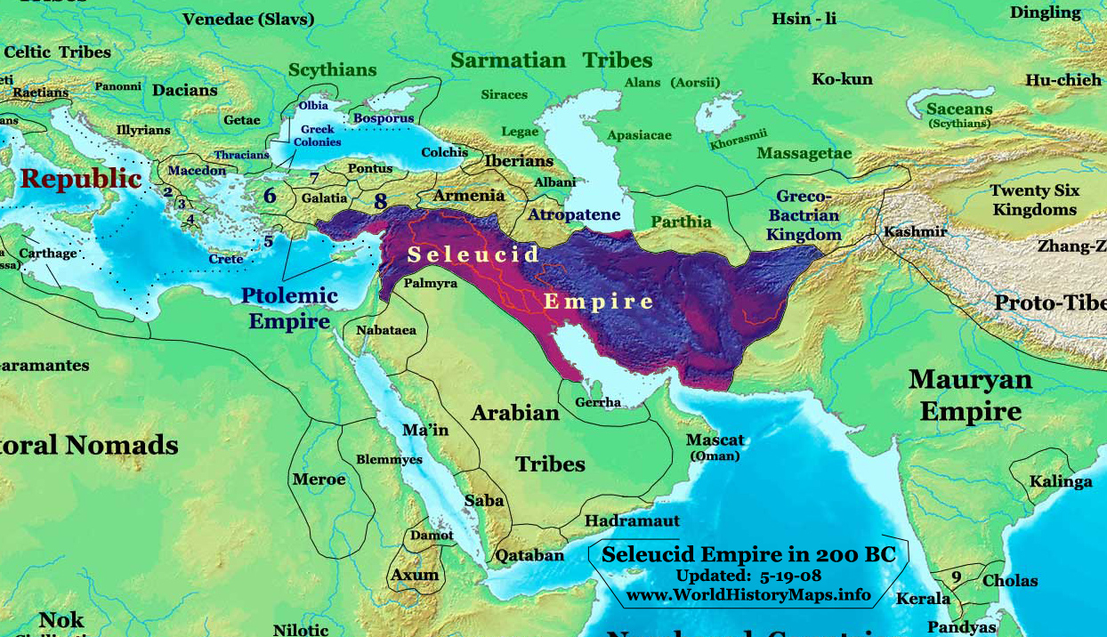 The Seleucid Empire in 200 BC. Author: Thomas A. Lessman. Source URL: Image was created by me (Thomas Lessman) based on my map of Eastern Hemisphere in 200 BC.